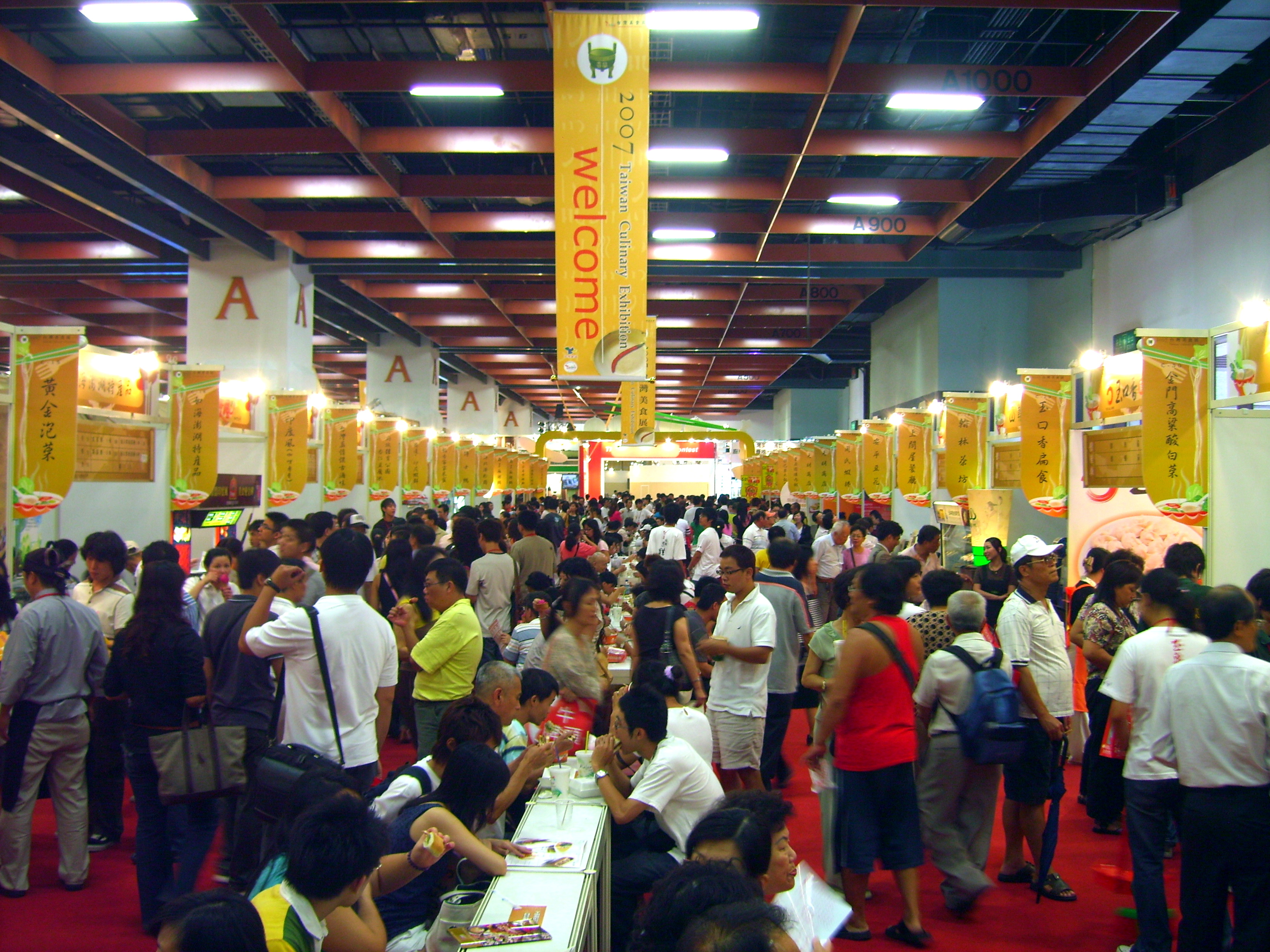 2007 Taiwan Culinary Exhibition: Gourmet Dining Guide - Food Court.